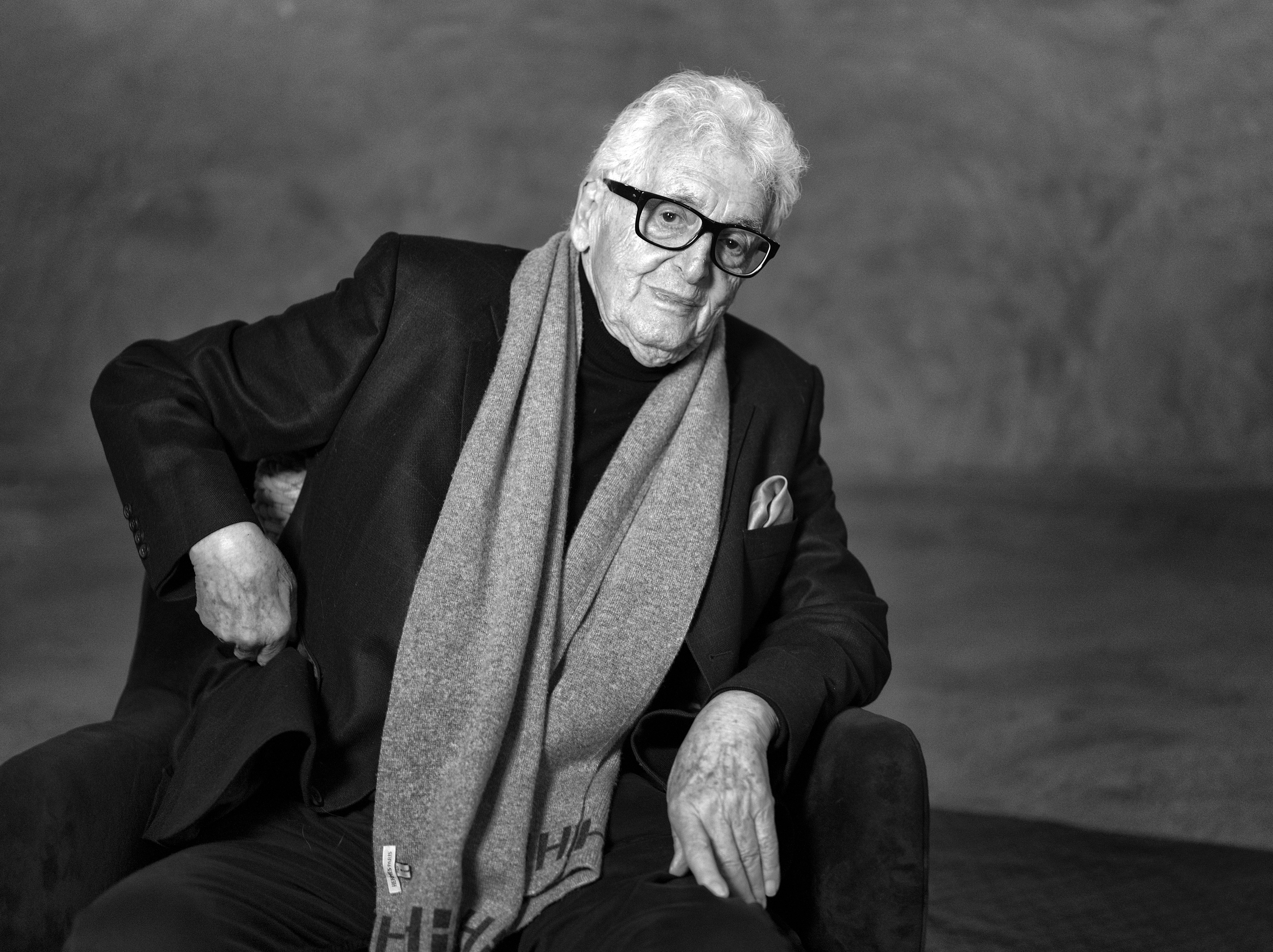 Harry Benson photographed by Christopher Michel